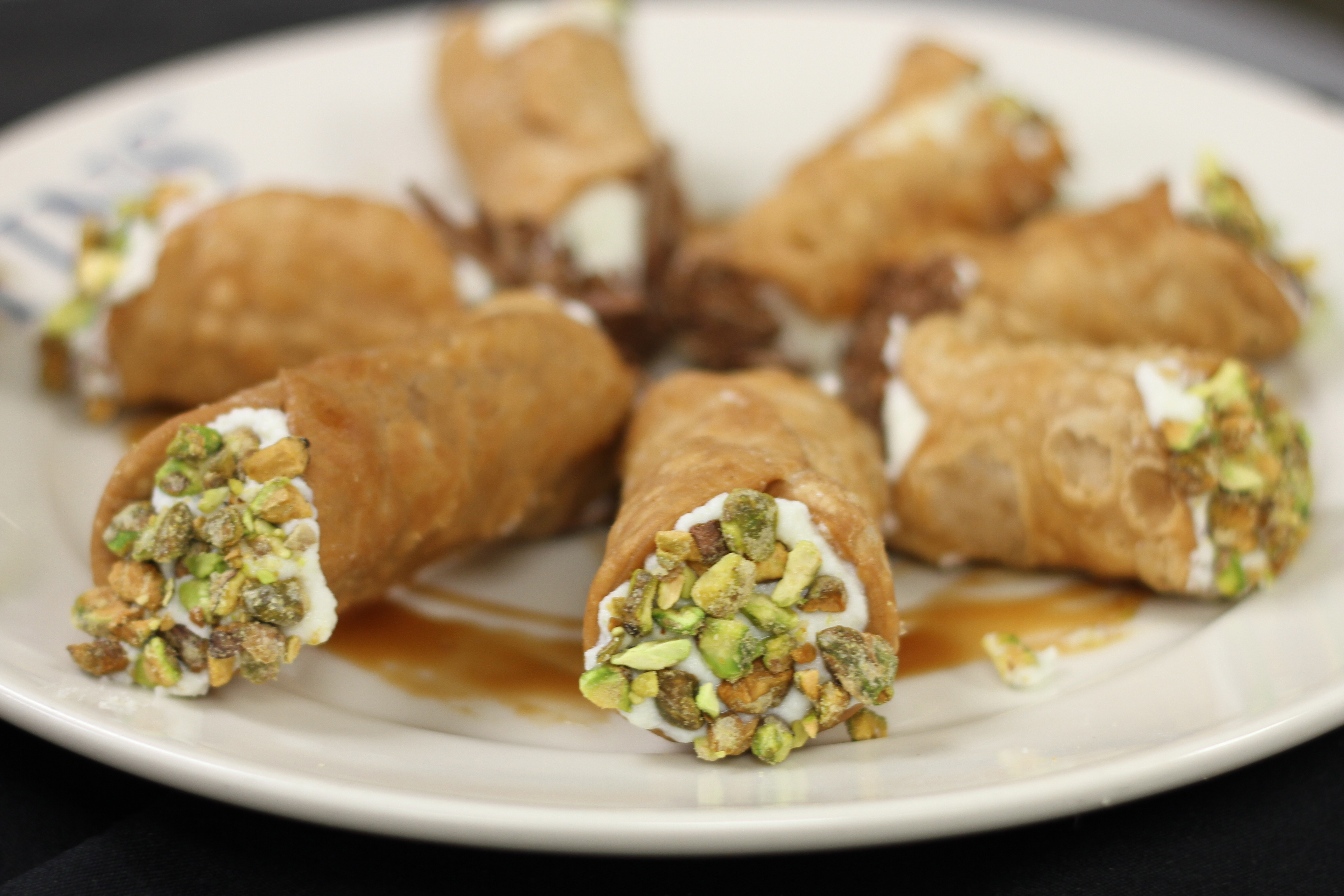 Cannoli served family style